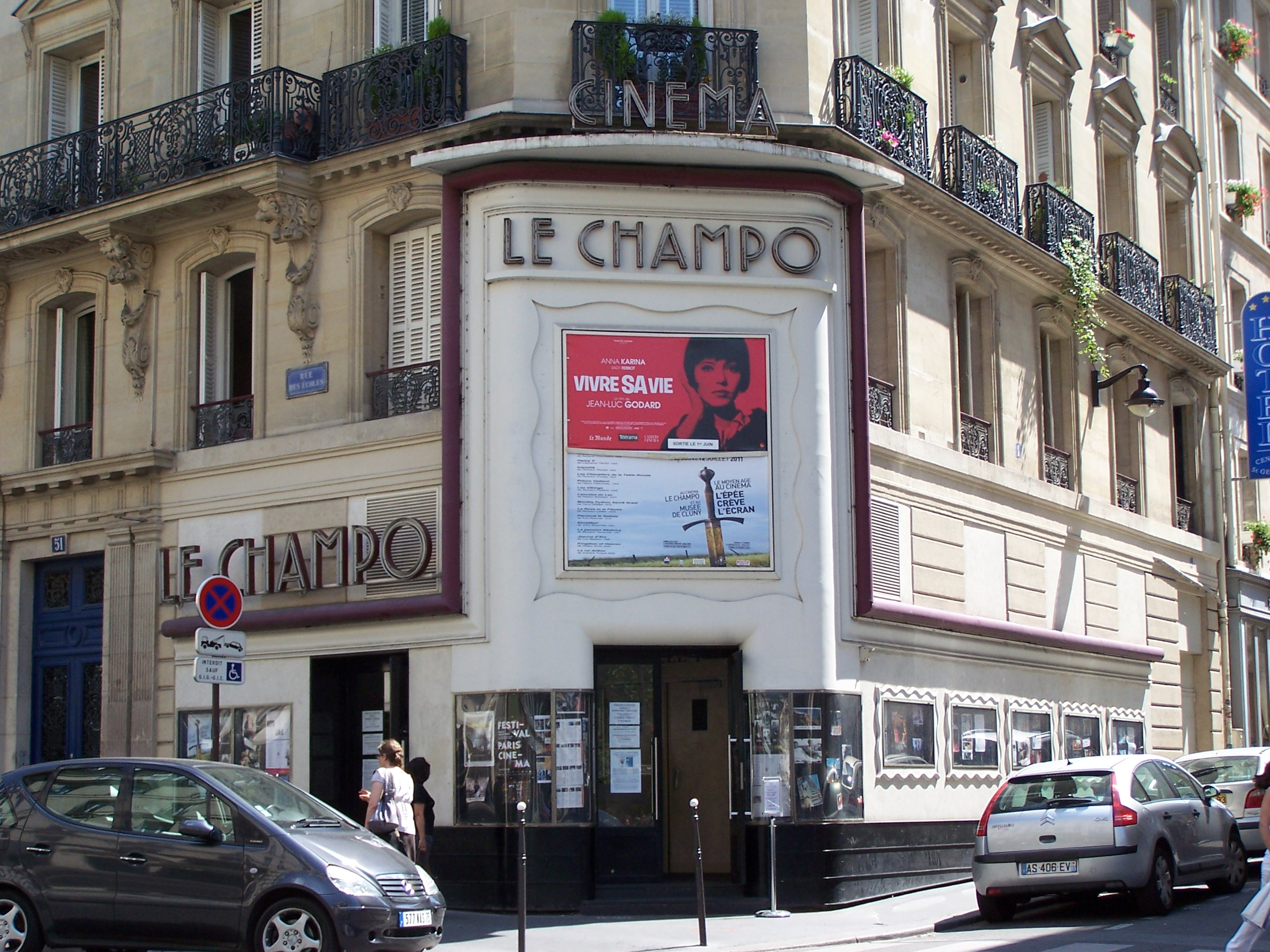 View of the movie theater Le Champo - Espace Jacques-Tati at rue Champollion and rue des Écoles in Paris